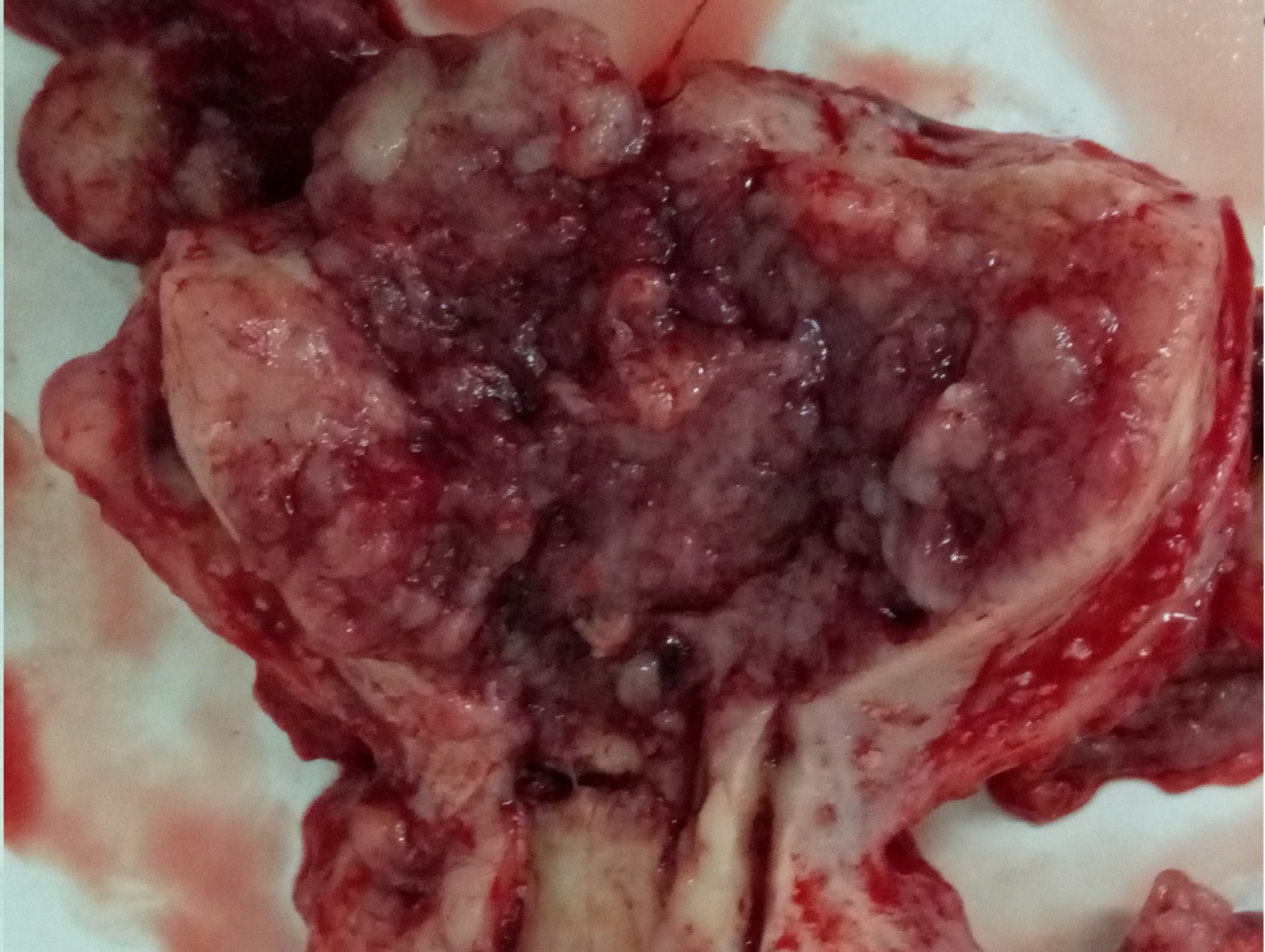 Cancer uteri